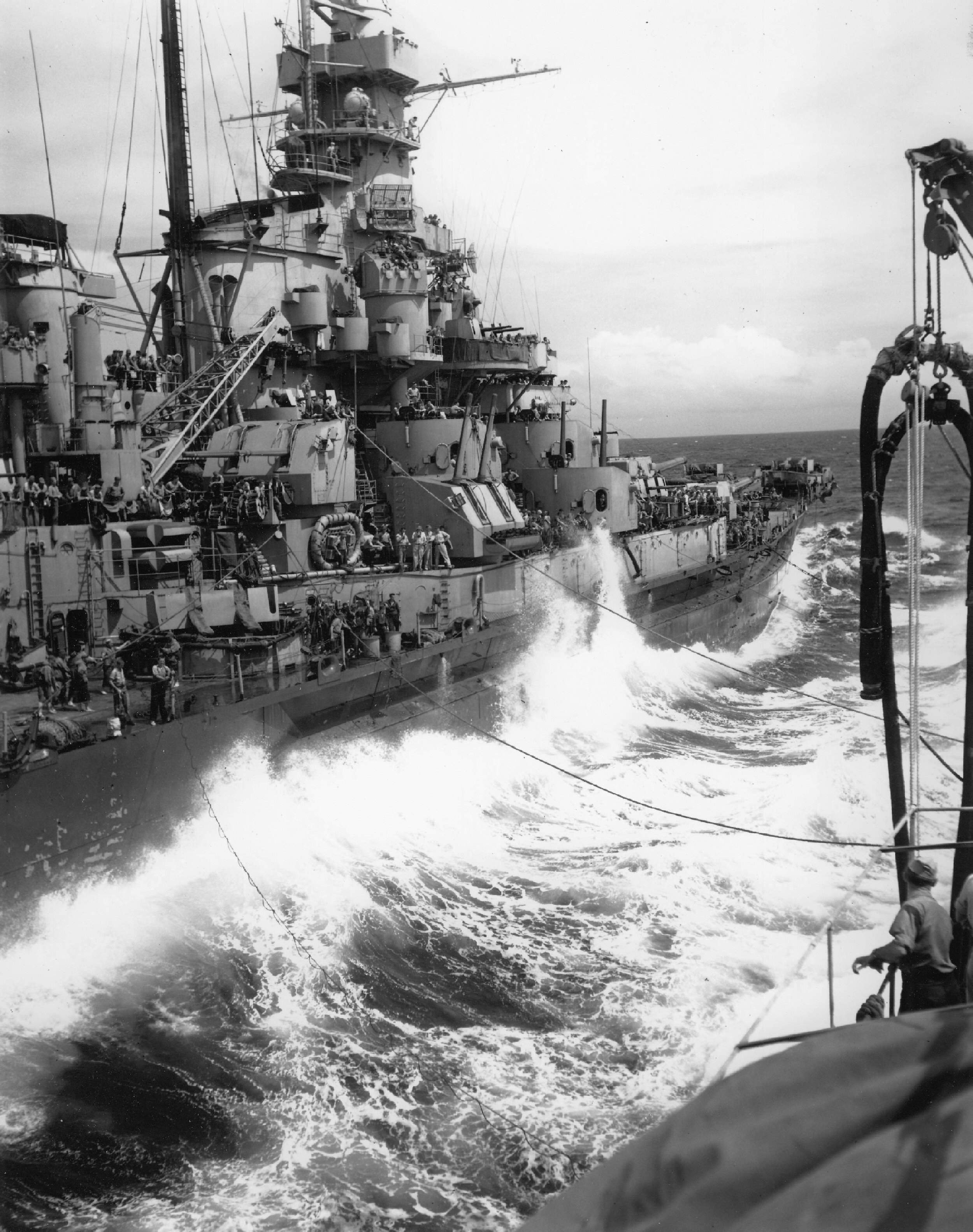 Massachusetts (BB-59) refueling from the T3-S2-A1 class Kaskaskia (AO-27) during a storm at sea, 17 October 1944. Note radar equipment Mk.8 atop Spot 2.